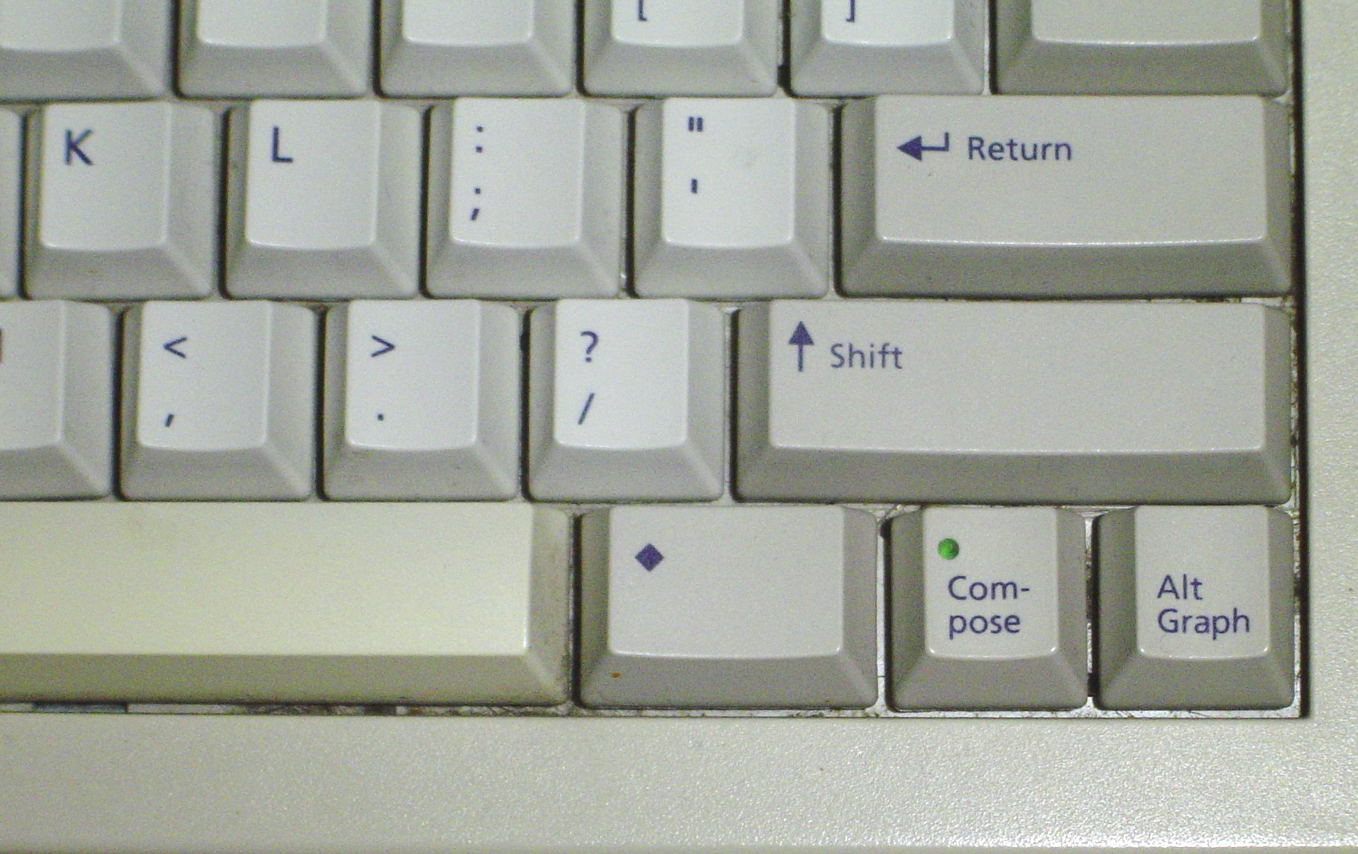 Picture showing the Compose key (and the Alt Graphics, Meta, Shift, Return keys; half of the conveniently though abnormally placed Backspace key and various letter keys) on a Sun Type 5c keyboard. The key has an LED which is not actually lit up, just reflecting the light of the flash. Under Sun operating systems, the LED lights up when the compose key is pressed, until the combination is performed.